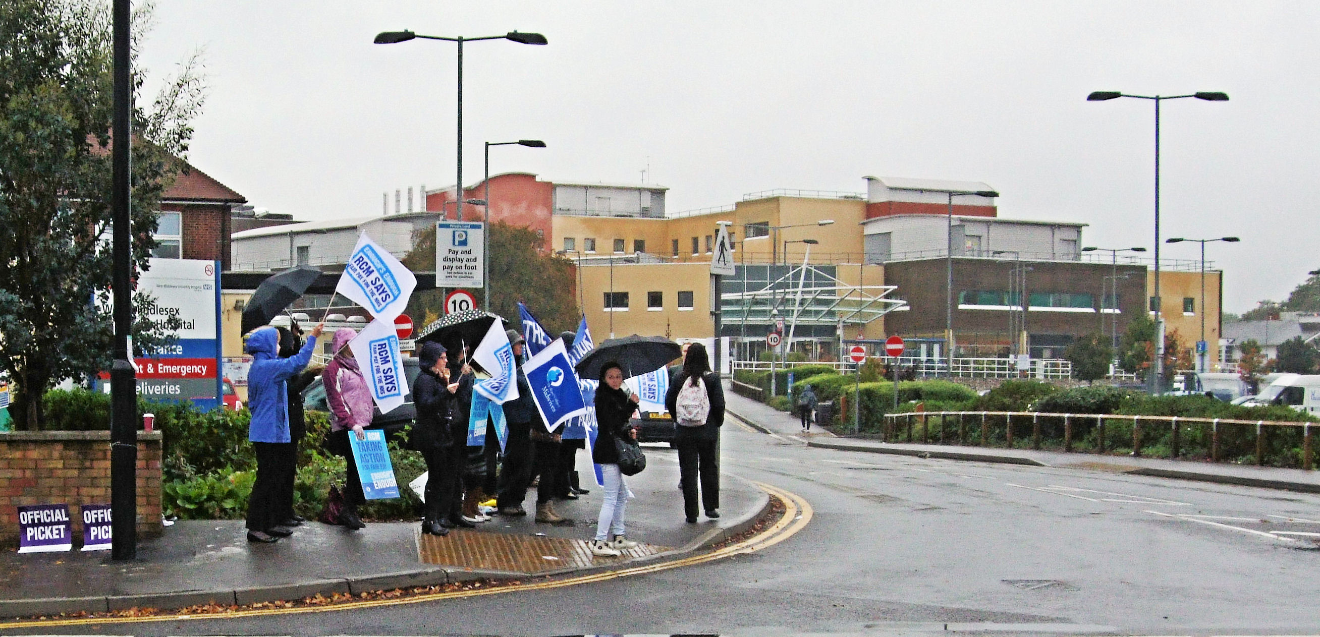 Royal College Of Midwives Picket The West Middlesex Hospital, Isleworth. Thousands of NHS staff across England staged a four-hour strike over pay on 13 October 2014, the first such walkout for more than 30 years. The action involved, among others, nurses, paramedics, midwives, ambulance drivers and other staff.